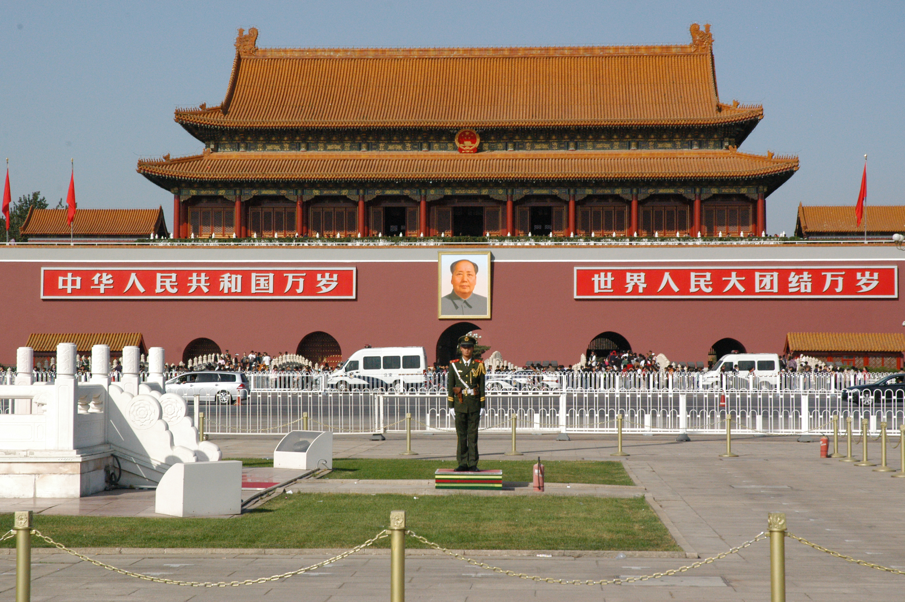 PRC soldier stands guard in front of Tiananmen (gate of heavenly peace) at the entrance to the Forbidden City in Beijing.